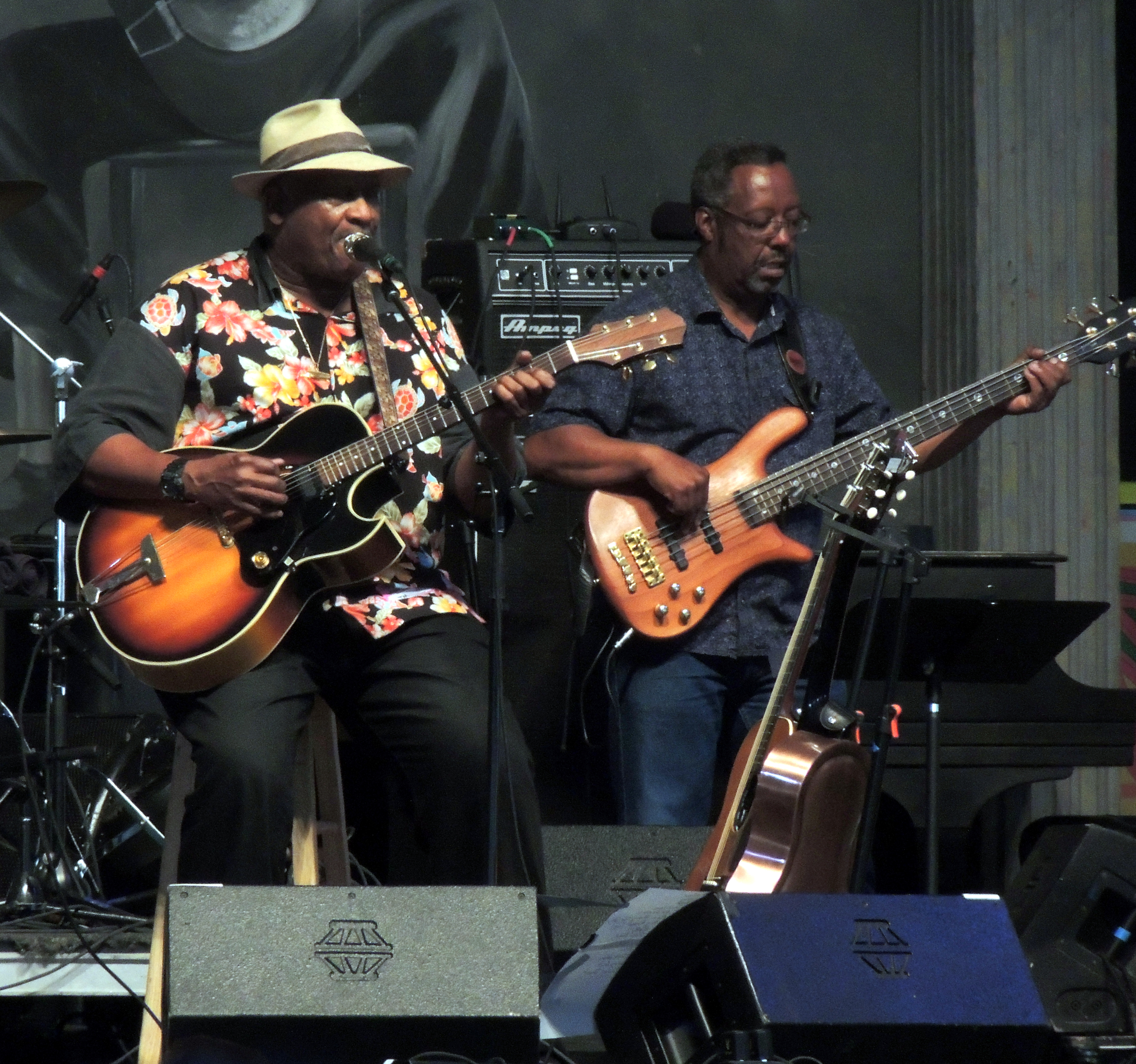 Taj Mahal at Jazz Fest New Orleans